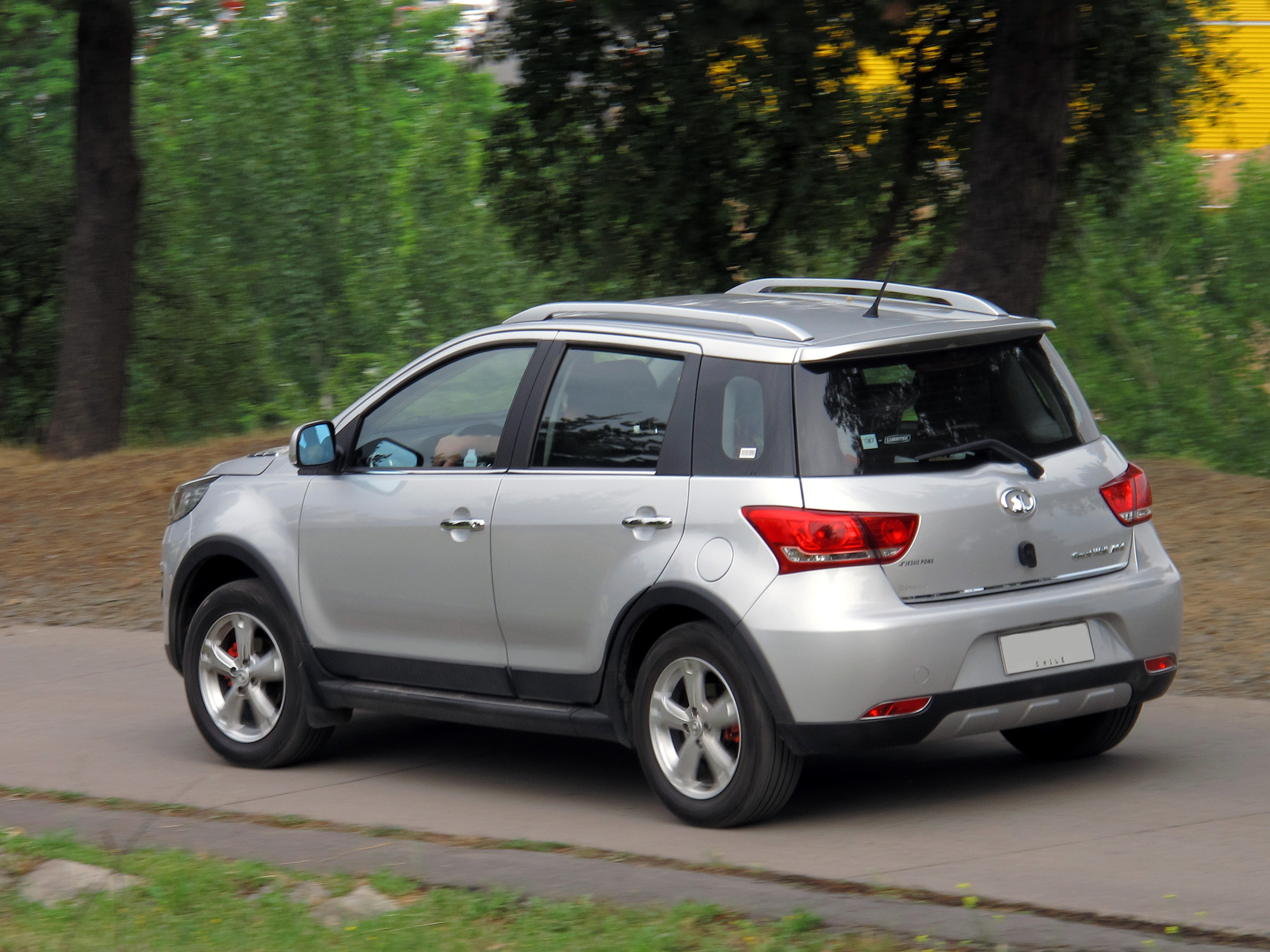 Great Wall M4 1.5 EN 2015